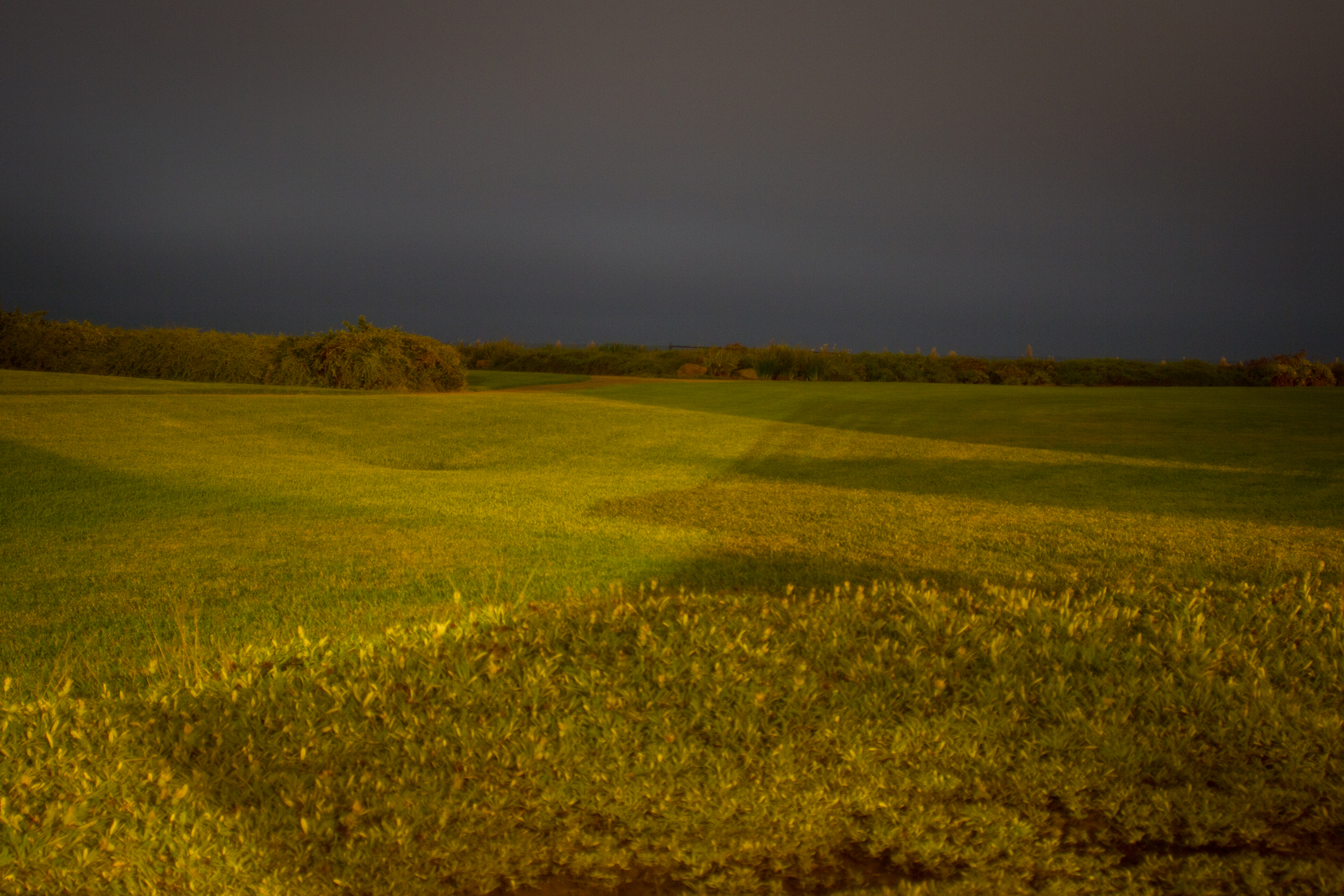 The grounds and ocean at the Seascape Beach Resort in Aptos, California in 2011 at night.